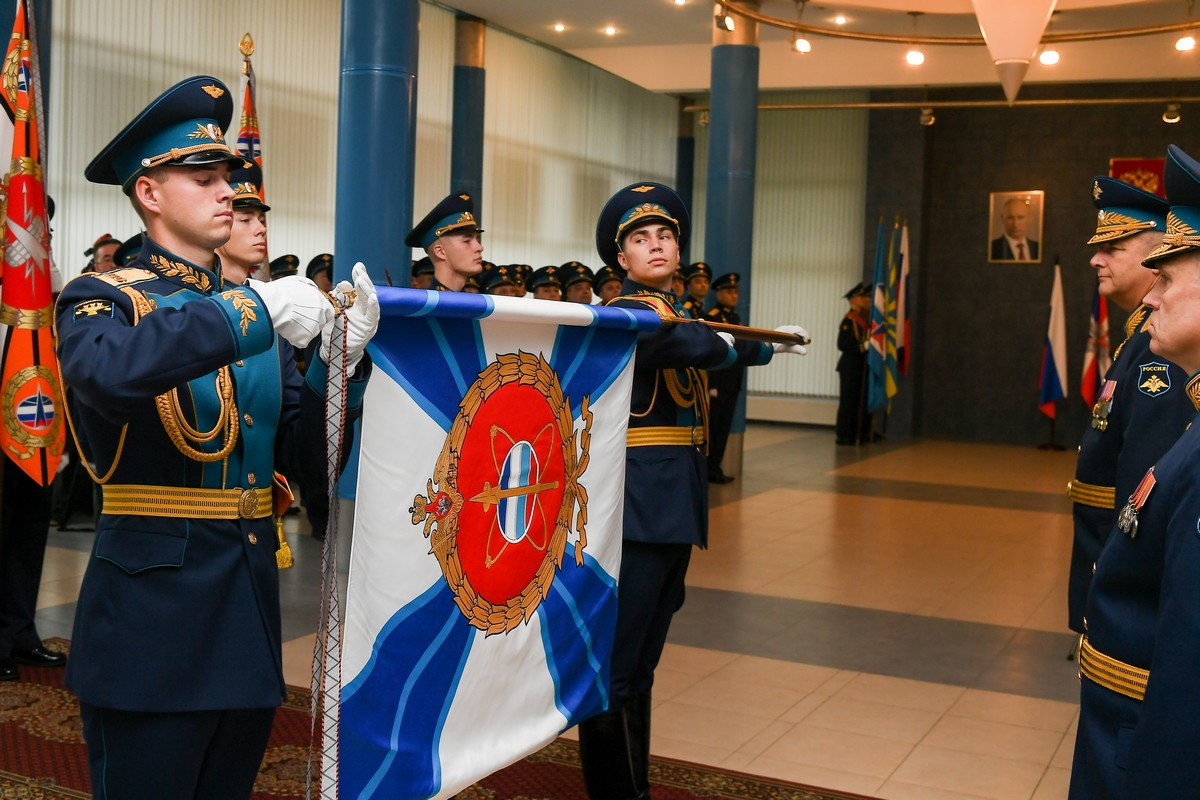 Banner awarded to the 15th Aerospace Forces Army.